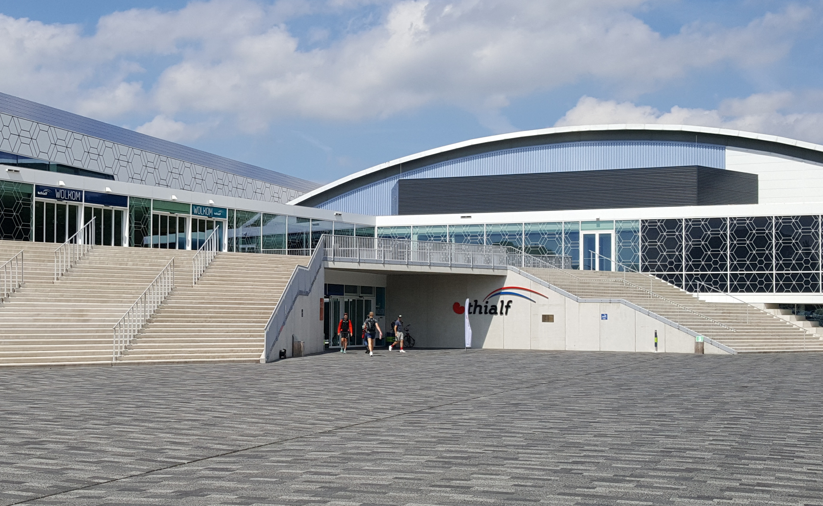 Thialf ice stadium, Heerenveen, June 2019